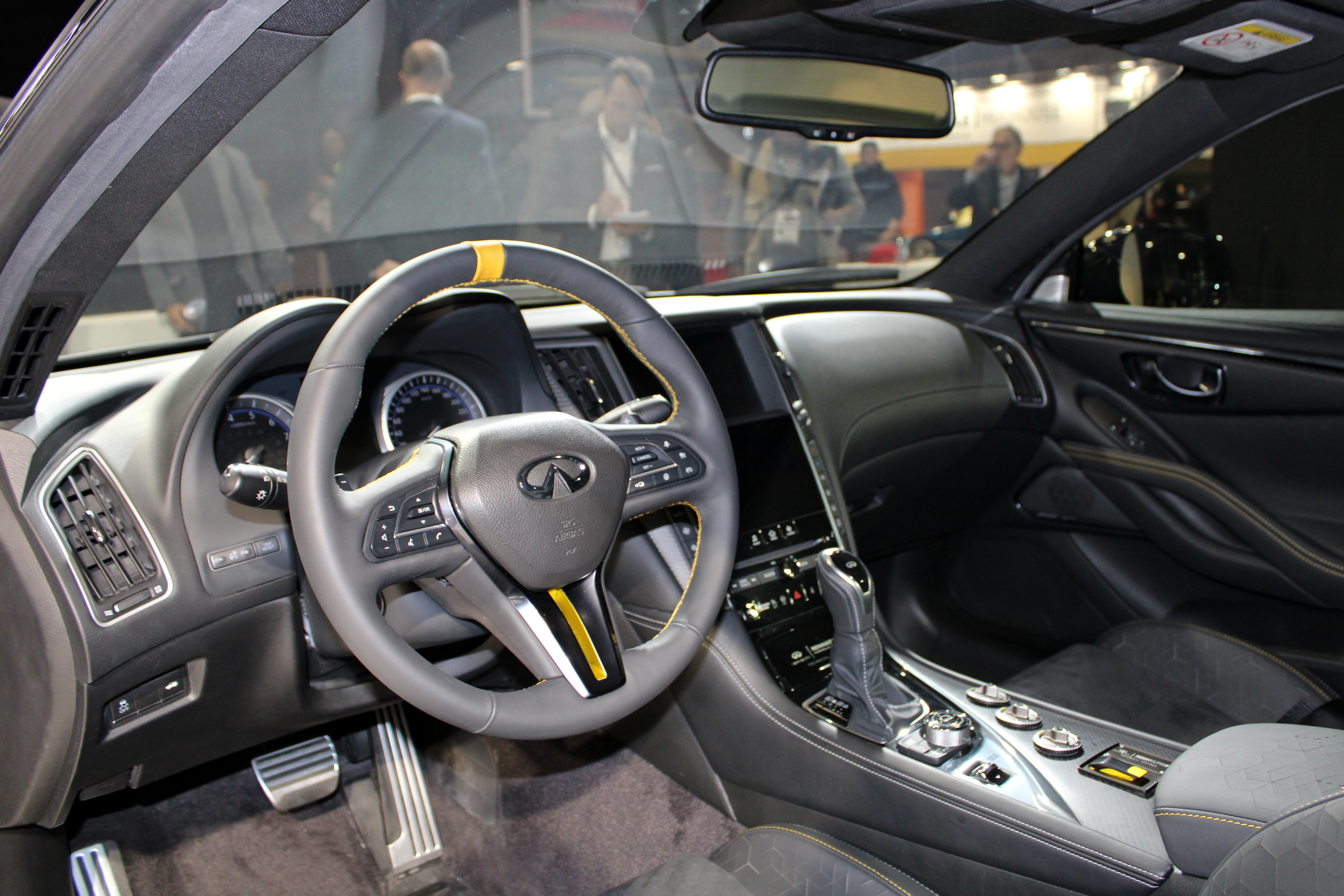 Infiniti Q60 Project Black S at Paris Motor Show 2018